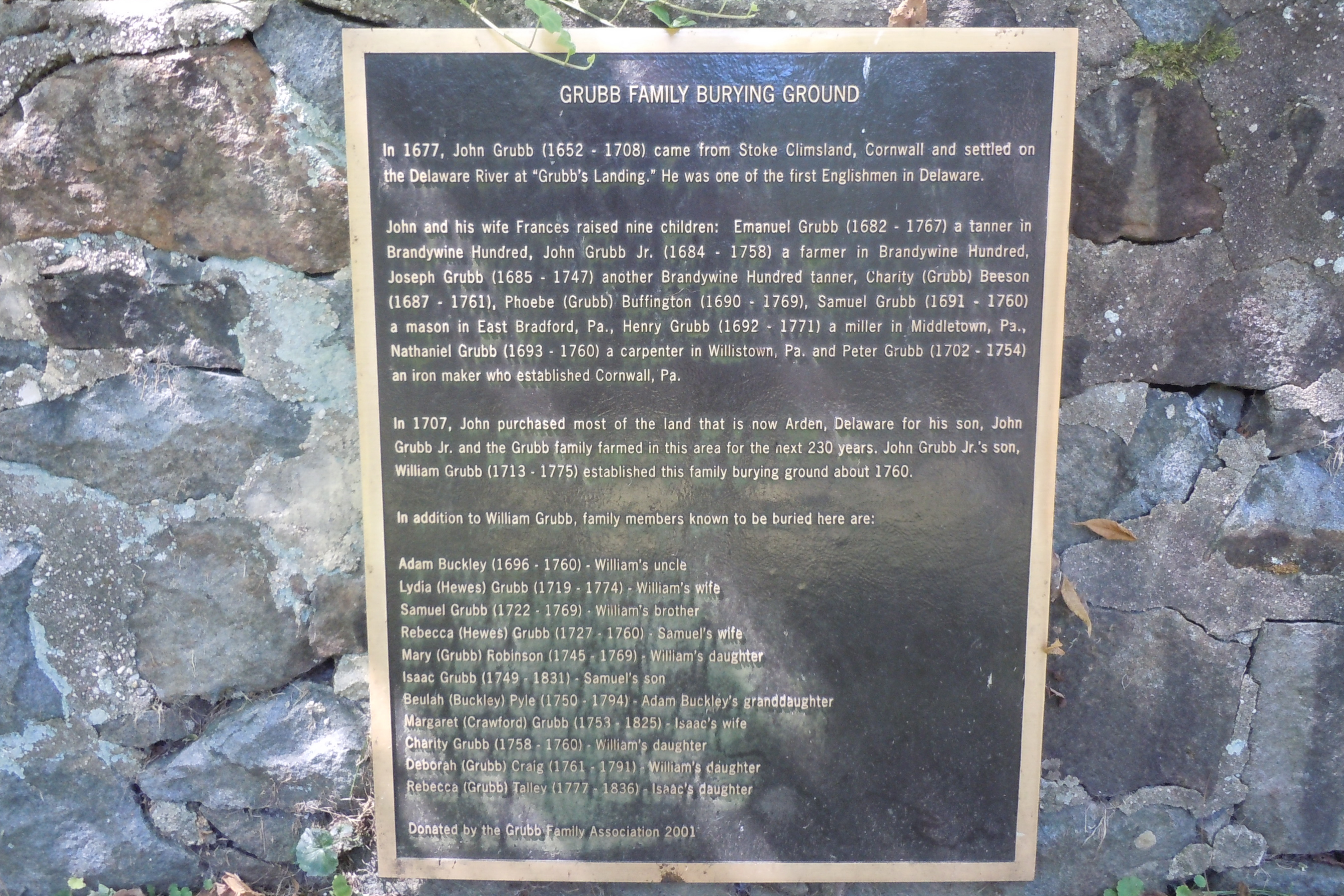 The Grubb Burying Grounds in Arden, Delaware